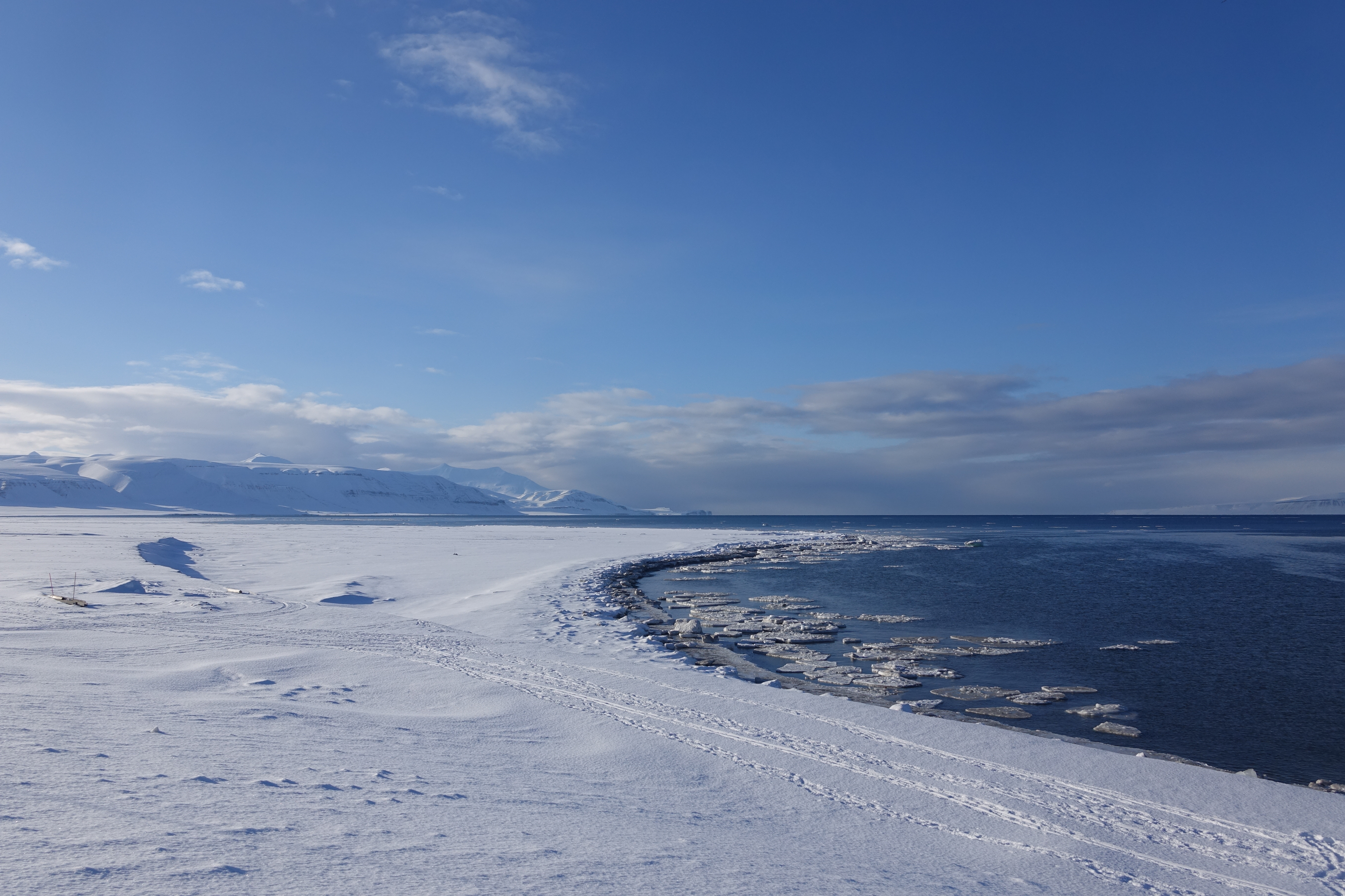 The beach, west view